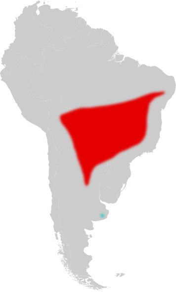 Current distribution of the rodent Pseudoryzomys in South America (red), with a fossil record in Argentina in blue.